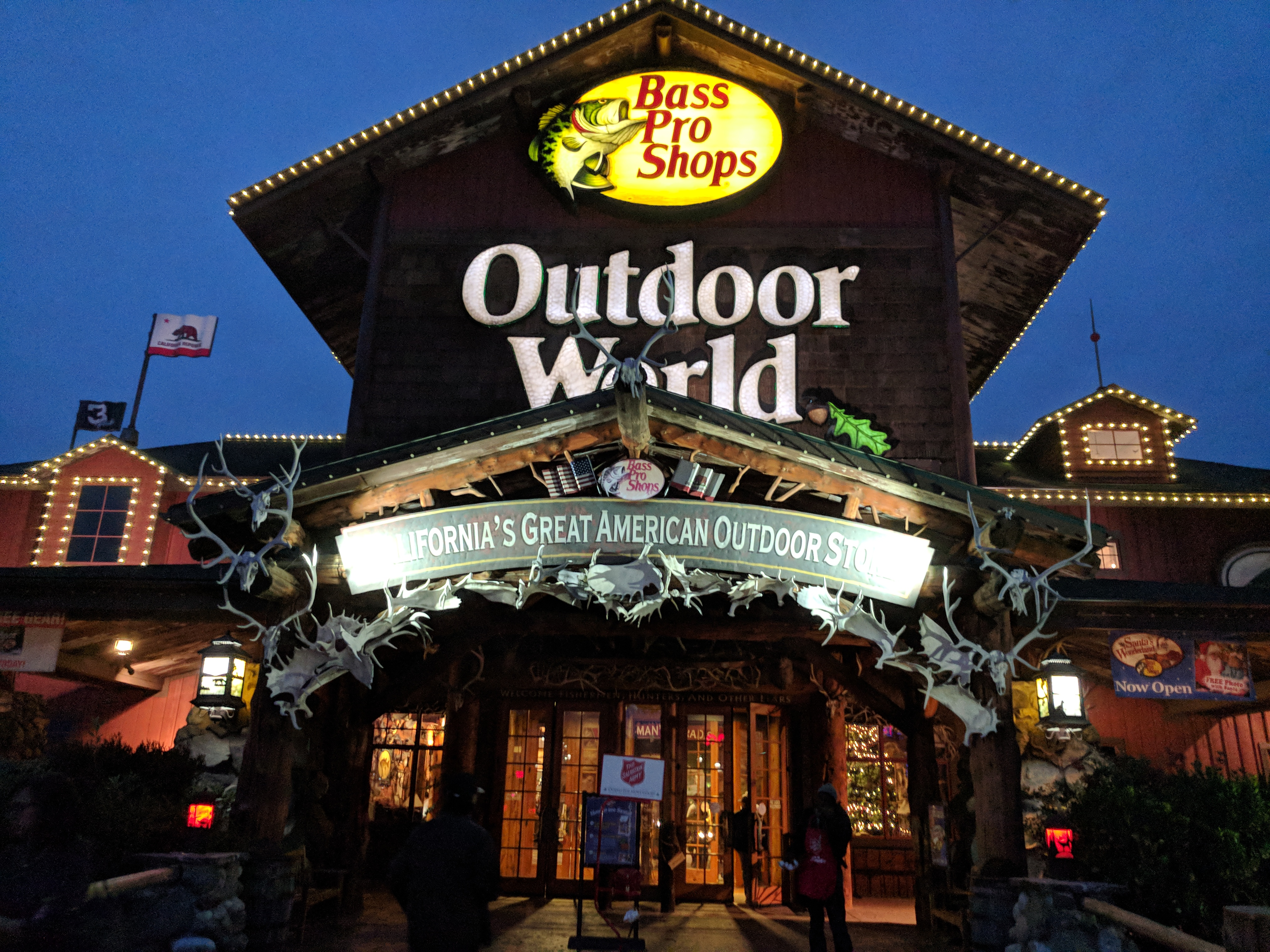 An exterior view of Bass Pro Shops Outdoor World at Promenade Shops at Orchard Valley, California